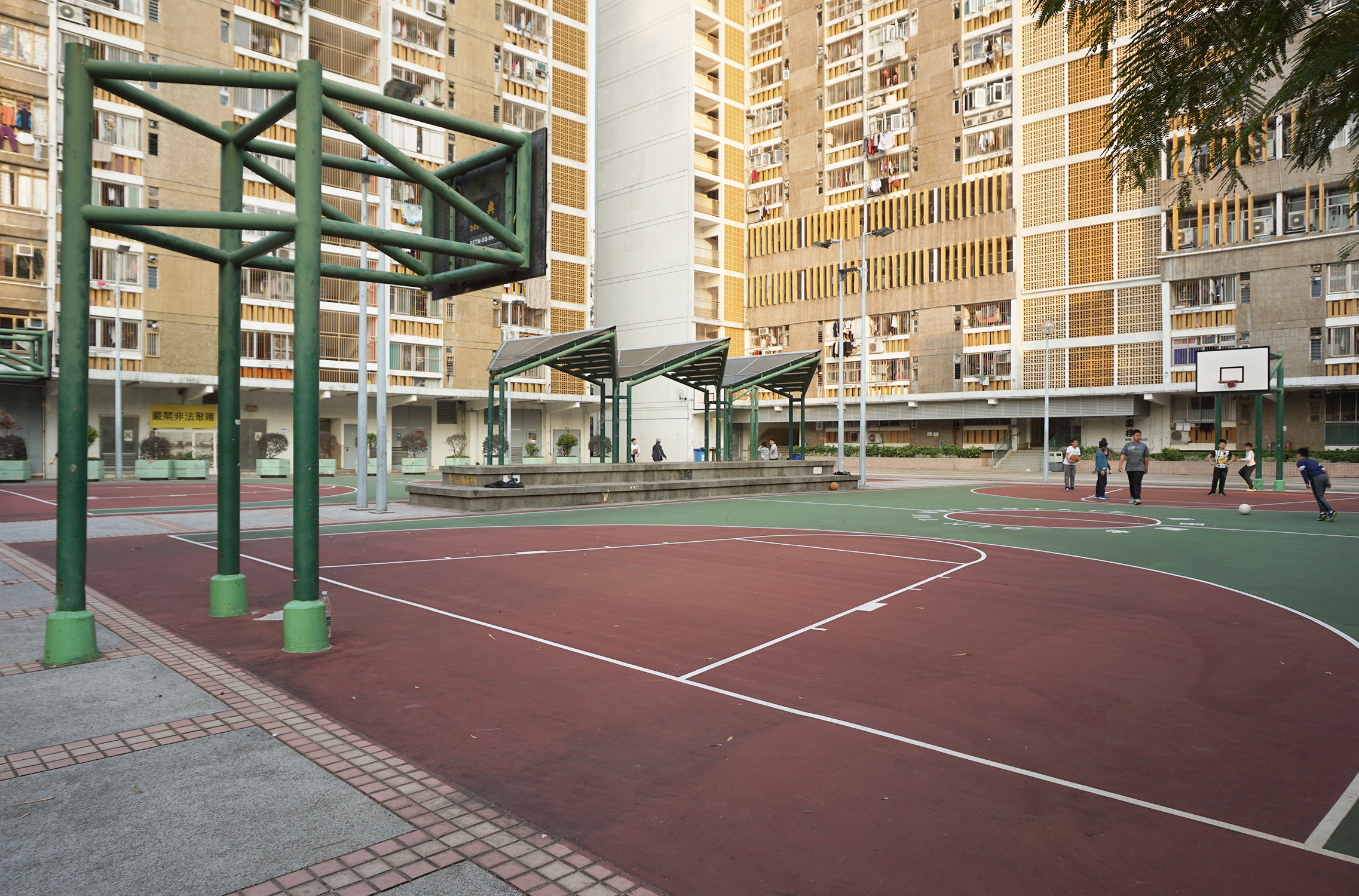 Sun Tin Wai Estate in Sha Tin Tau, Hong Kong.